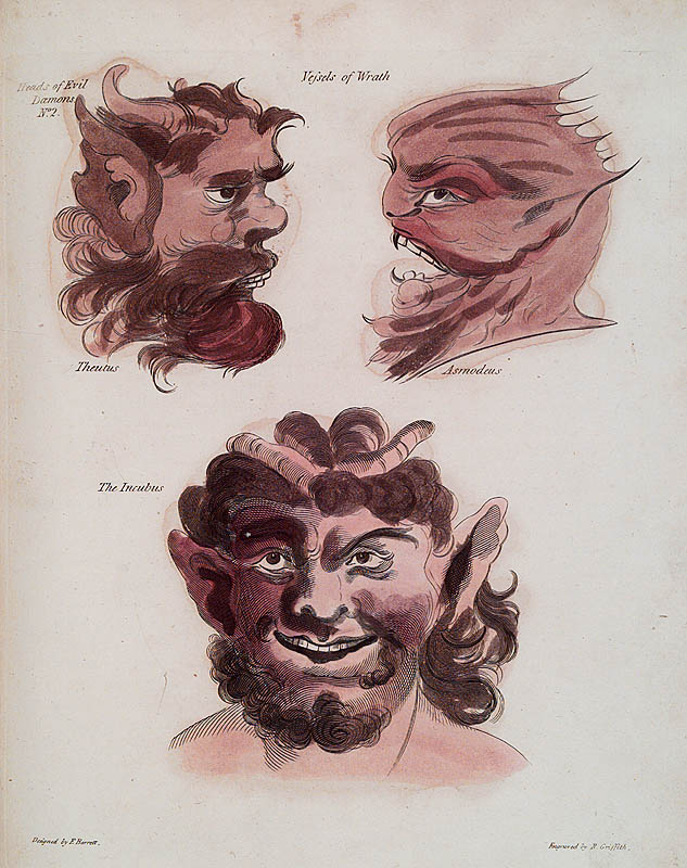 Demons "Theutus", "Asmodeus" and "The Incubus", hand-coloured etching from Francis Barrett's book "The Magus" (1801), under the heading "Heads of Evil Damons N. 2", "Vessels of Wrath